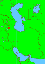 Map showing the location of Tabriz in Iran